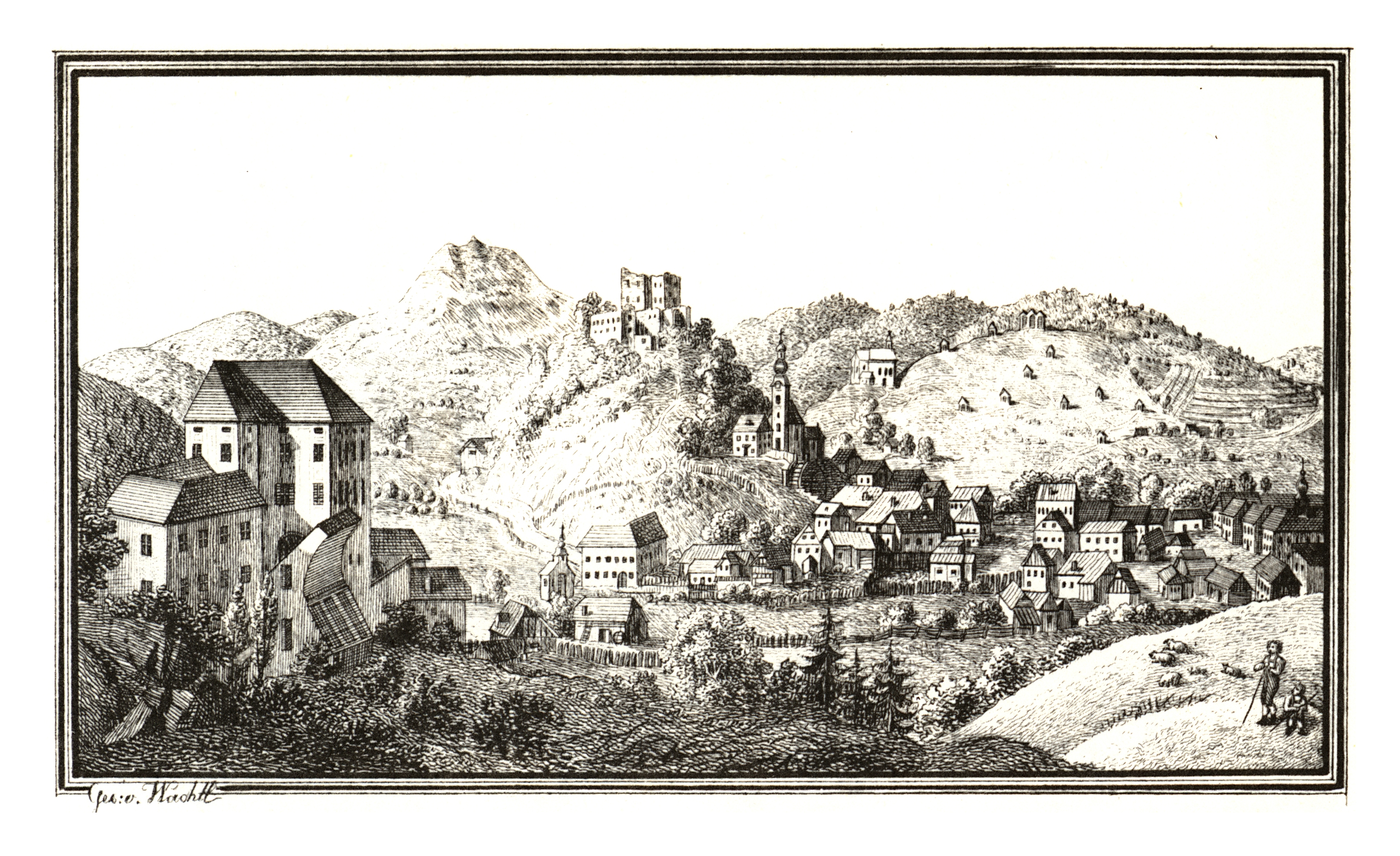 J. F. Kaiser - lithographirte Ansichten der Steyermärkischen Städte, Märkte und Schlösser, Graz 1824-1833 Joseph Franz Kaiser (1786–1859) Alternative names J. F. KaiserDescriptionAustrian printer and editorDate of birth/death 11 March 1786 19 September 1859Location of birth/death Graz (Styria) GrazAuthority control : Q1499963 VIAF: 30629353 ISNI: 0000 0000 3083 0153 LCCN: n87141671 GND: 129880159 NLP: A24960305 WorldCat creator QS:P170,Q1499963 . Scanprojekt Community Projektbudget 2012 This scan or this PDF-file was created within the GLAM-project Bookscanning, supported by Wikimedia Germany and Wikimedia Austria as a part of the community-project to capture books, documents and pictures which are not eligible to copyright or for which the copyright has expired. This document describes or depicts an object which is located in Austria today. Send requests for uncompressed scans to Hubertl. This work is in the public domain in its country of origin and other countries and areas where the copyright term is the author's life plus 100 years or less. You must also include a United States public domain tag to indicate why this work is in the public domain in the United States. This file has been identified as being free of known restrictions under copyright law, including all related and neighboring rights.